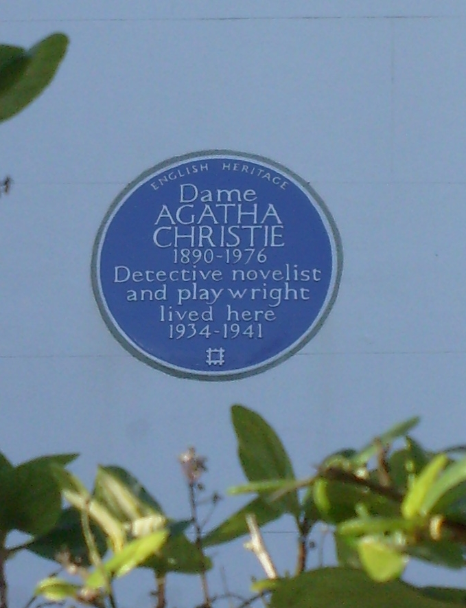 Agatha Christie blue plague. No.58 Sheffield Terrace, Kensington & Chelsea, London, U.k.